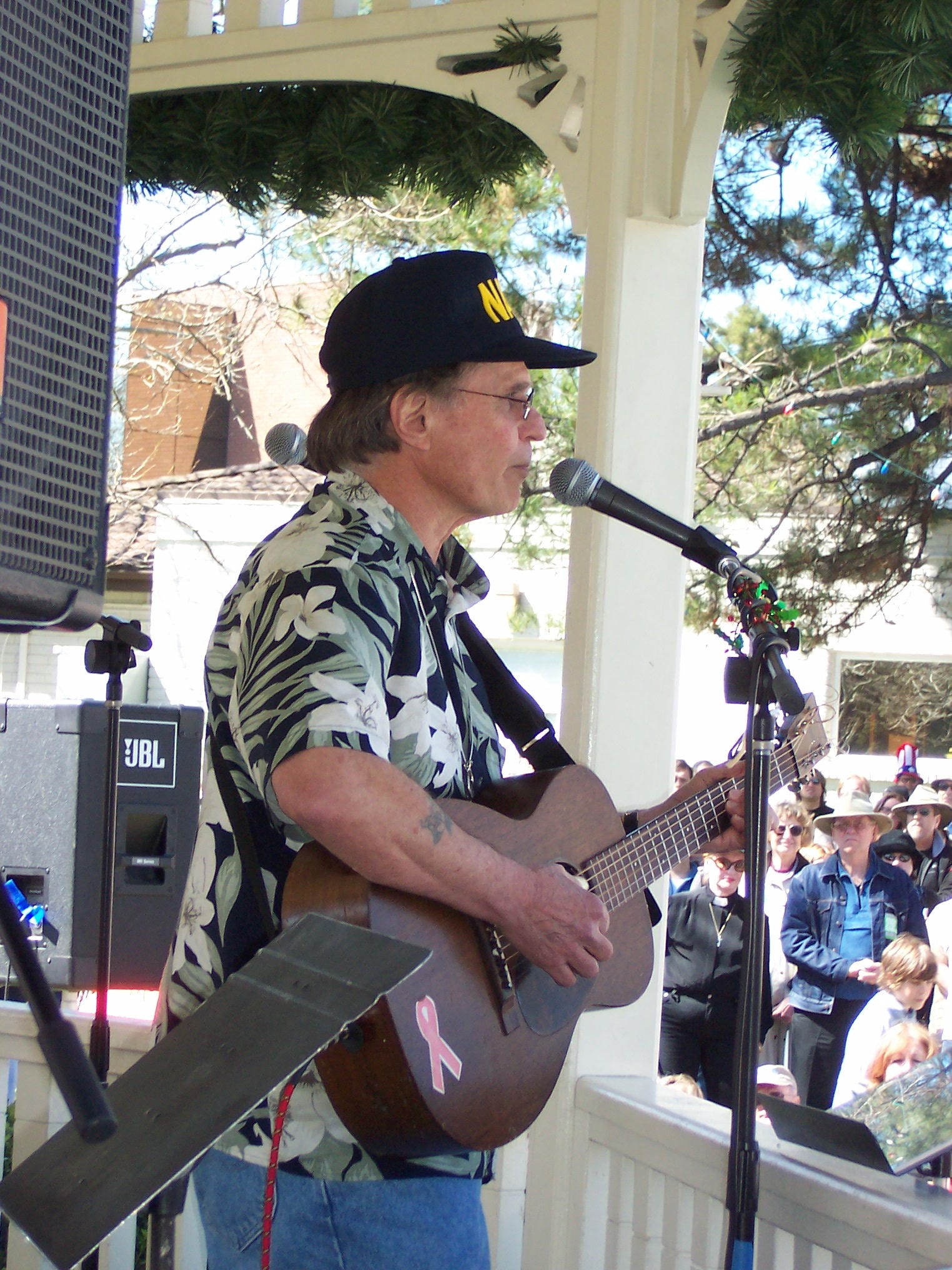 Country Joe plays at a anti-war rally in Walnut Creek, CA 2006